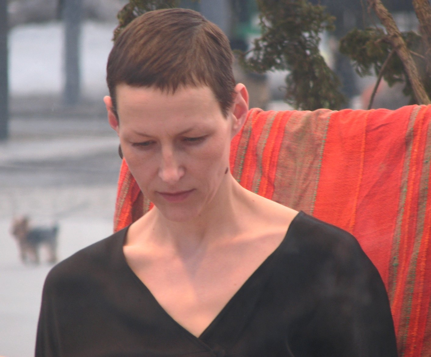 Ruta Tepp-Soonsein is Estonian fashion designer.